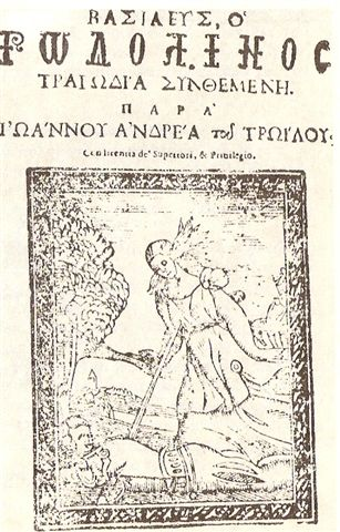 Cover of "Vasileus o Rodolinos"